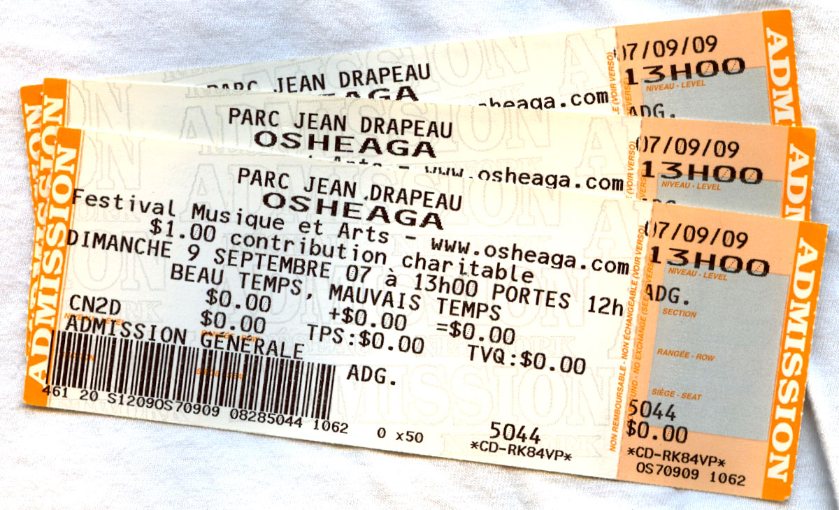 Three tickets for 2007 Osheaga Festival in Montreal, Canada.